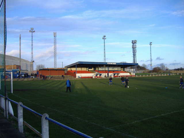 Warming up at Hillheads, home of Whitley Bay F.C.